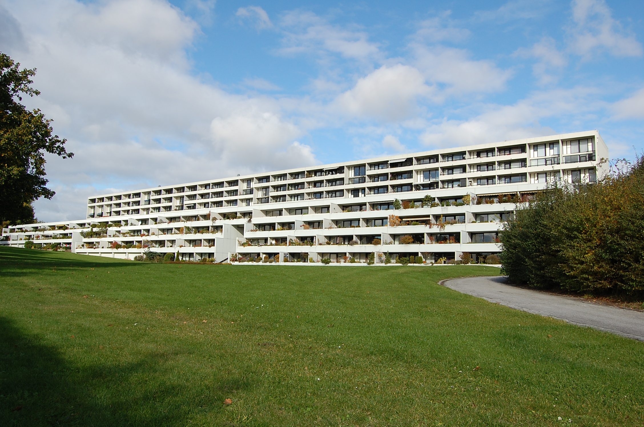 South facade of Vestervang in Århus, Denmark